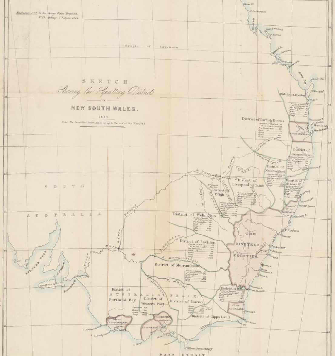 Map of New South Wales and Victoria showing squatting districts with number of stations, acres in cultivation, free and bond populations, horses, cattle and sheep.